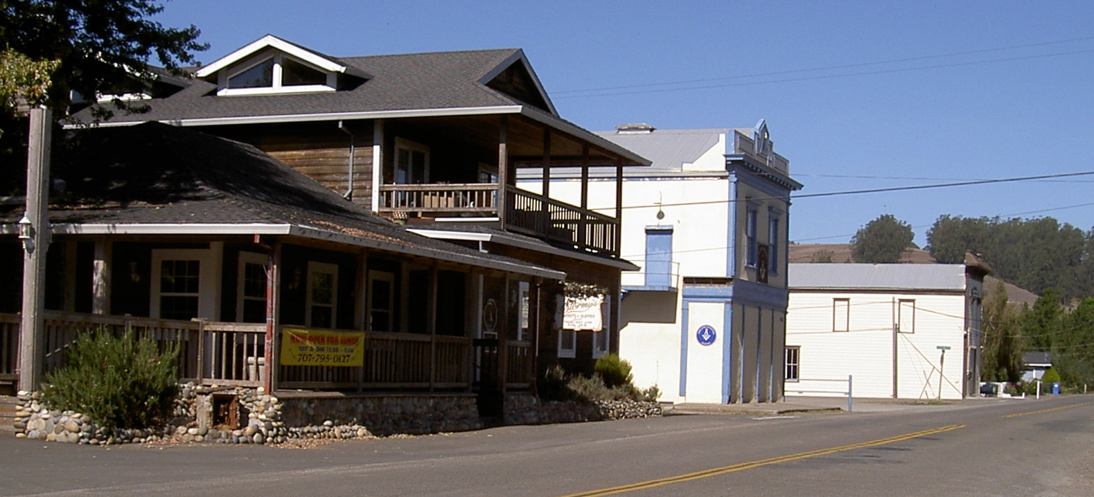 main buildings of Bloomfield, California as seen from the east side of Bloomfield Road just south of Mary Weeks Plaza, rotated and cropped using Adobe Photoshop Elements